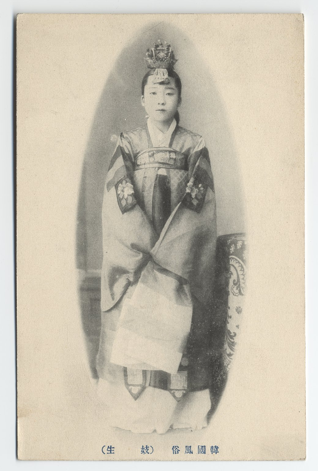 Collection: Willard Dickerman Straight and Early U.S.-Korea Diplomatic Relations, Cornell University Library Title: Dancing girl Date: ca. 1904 Place: Asia: South Korea Type: Postcards/Ephemera Description: A Korean 'kisaeng', or singing girl, dressed up for her performance. A 'kisaeng's' social position was among the lowest in the traditional Korean class system. Their daughters also became 'kisaeng' and their sons became slaves. A dancer is shown wearing a 'hwagwan' (a small crown decorated with flowers and jewels). The art of entertaining of the 'kisaeng' is analogous to the Japanese geisha. These professional entertainers were highly trained in the arts of poetry, music, dance, and other forms of social or artistic diversion. This is a photograph taken in a studio setting, produced for mass production. Source: Kwon, O-chang. Inmurhwaro ponun Choson sidae uri ot, 1998, p. 150. Inscription/Marks: Pencilled inscription on verso of image: 'Dancing girl' Identifier: 1260.74.12.05 Persistent URI: There are no known U.S. copyright restrictions on this image. The digital file is owned by the Cornell University Library which is making it freely available with the request that, when possible, the Library be credited as its source. We had some help with the geocoding from Web Services by Yahoo!